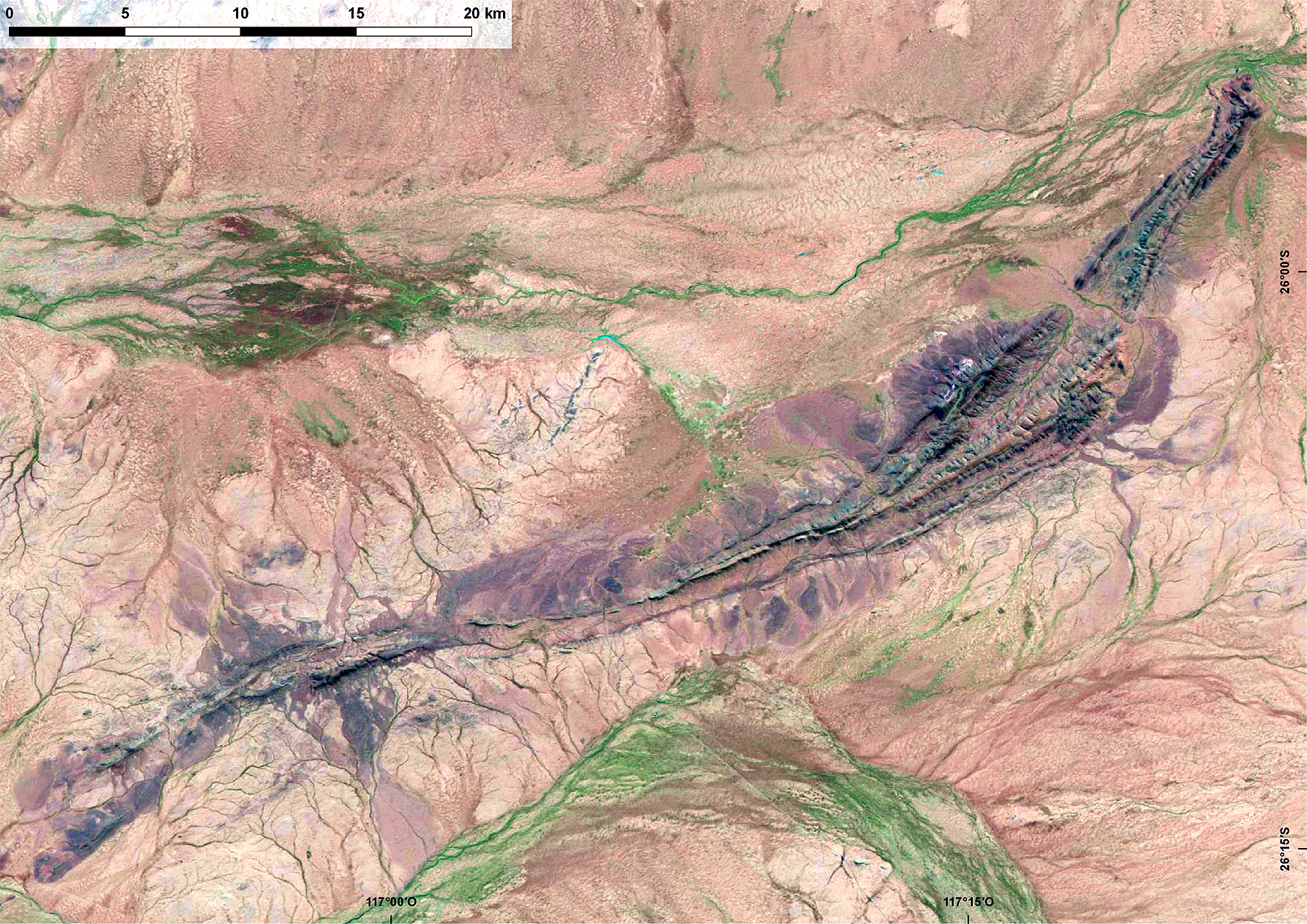 Contrast-enhanced true color satellite image (Landsat 5) of the Jack Hills in Western Australia. The rocks of the Jack Hills are very old (~ 3 Billion years) and belong to the so-called Yilgarn Craton. Yet some of these rocks, the Jack Hills conglomerate (actually a metaconglomerate) contain individual grains of zircon which are even older, more than 4 Billion years old. They are used by geoscientists to reconstruct the very early history of the earth.